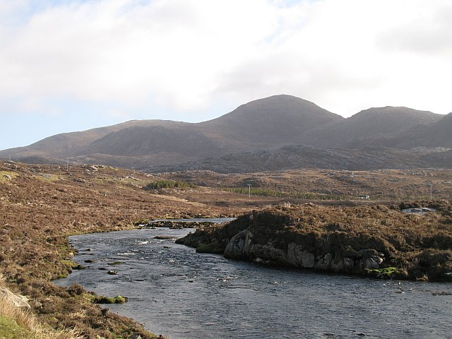 Abhainn Mhòr River draining the Chliostair group of lochs. Oireabhal in the background.